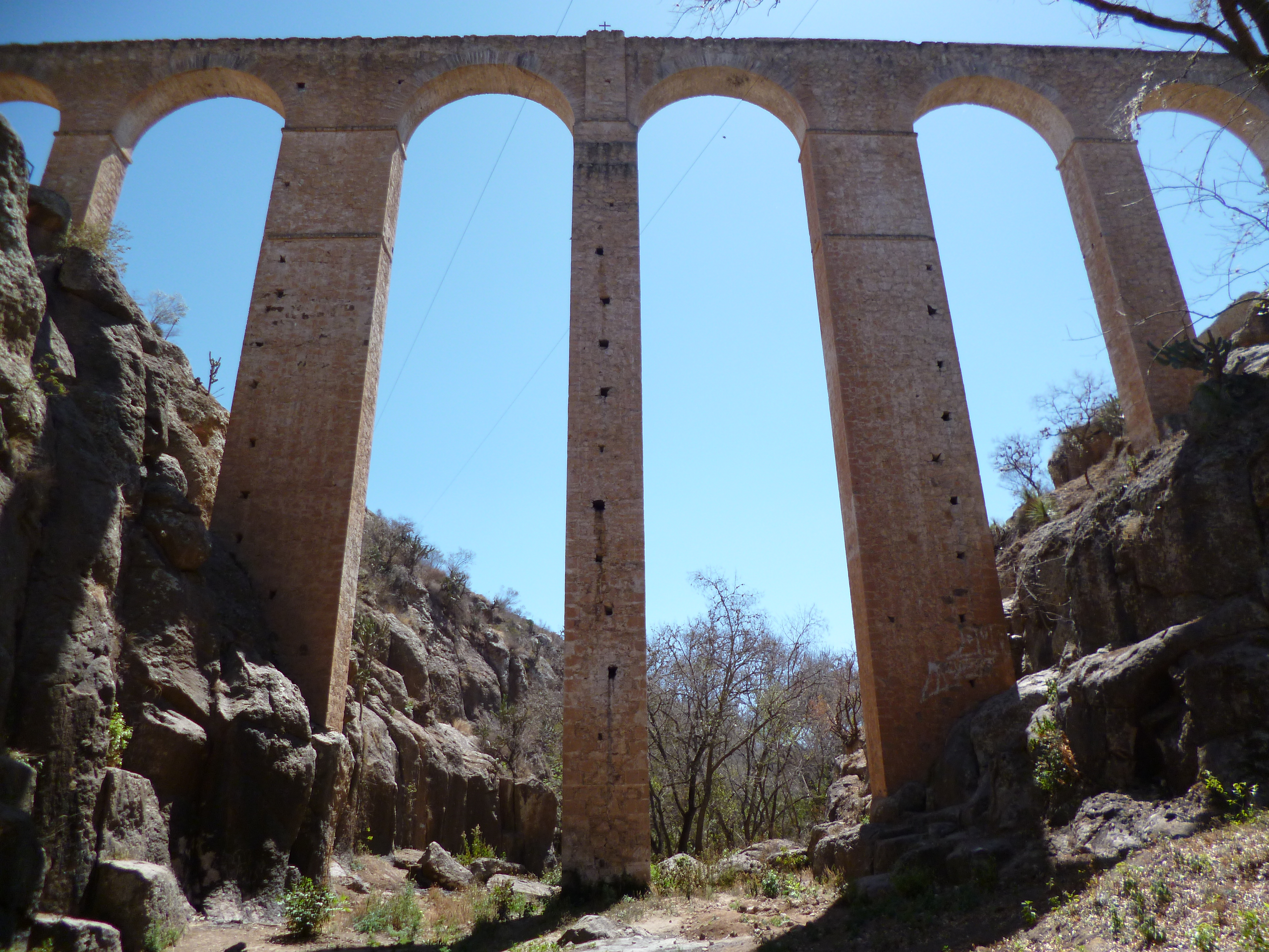 Higher world bows its kind in Huichapan, Hidalgo, Mexico.